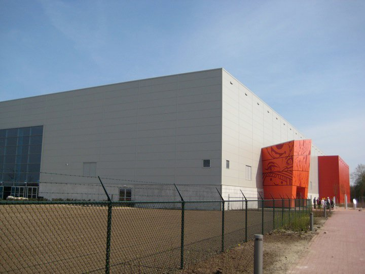 Plopsa Indoor Coevorden - Building